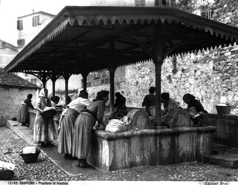 Carlo Brogi (1850-1925) - "Sanremo - Women of the populace at the wash house". Catalogue # 12182.